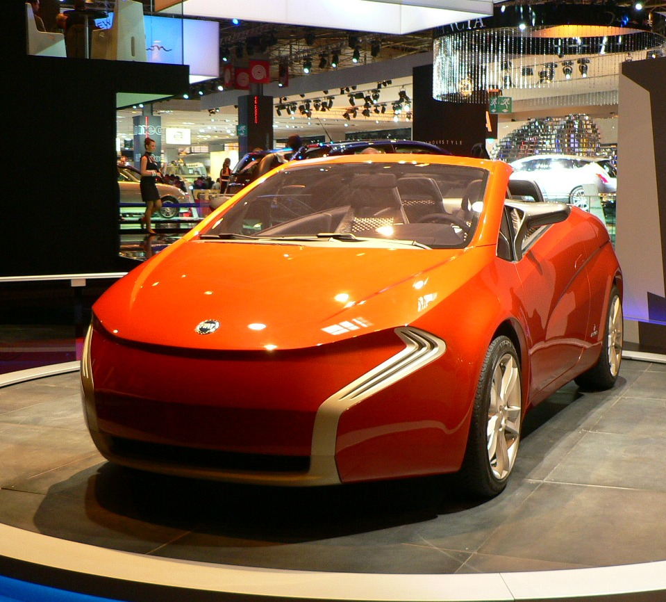 Fiat Suagnà at the 2006 Paris Motor Show